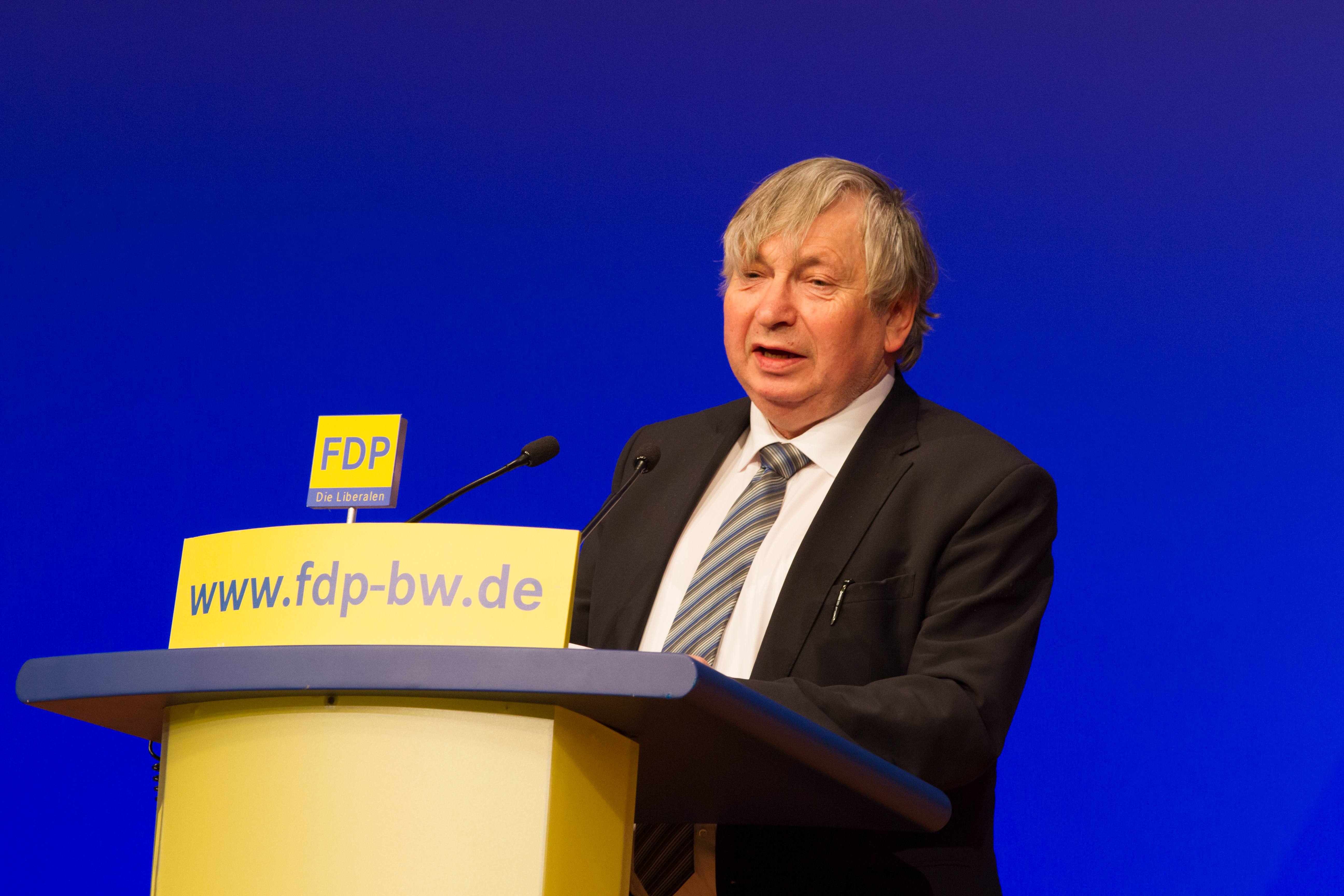 Series: 112th regular party convention of the FDP Baden-Württemberg in Stuttgart on January 5th, 2015 Image: Rudolf Rentschler